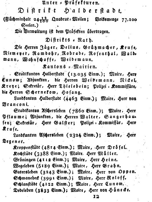 Scan of old public address register of 1811